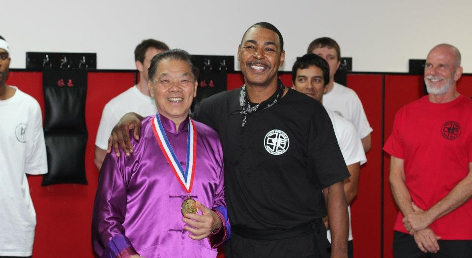 Anthony Arnett presenting William Cheung with one of his own medals won in tournament during his visit to Jacksonville Florida. USA in 2011